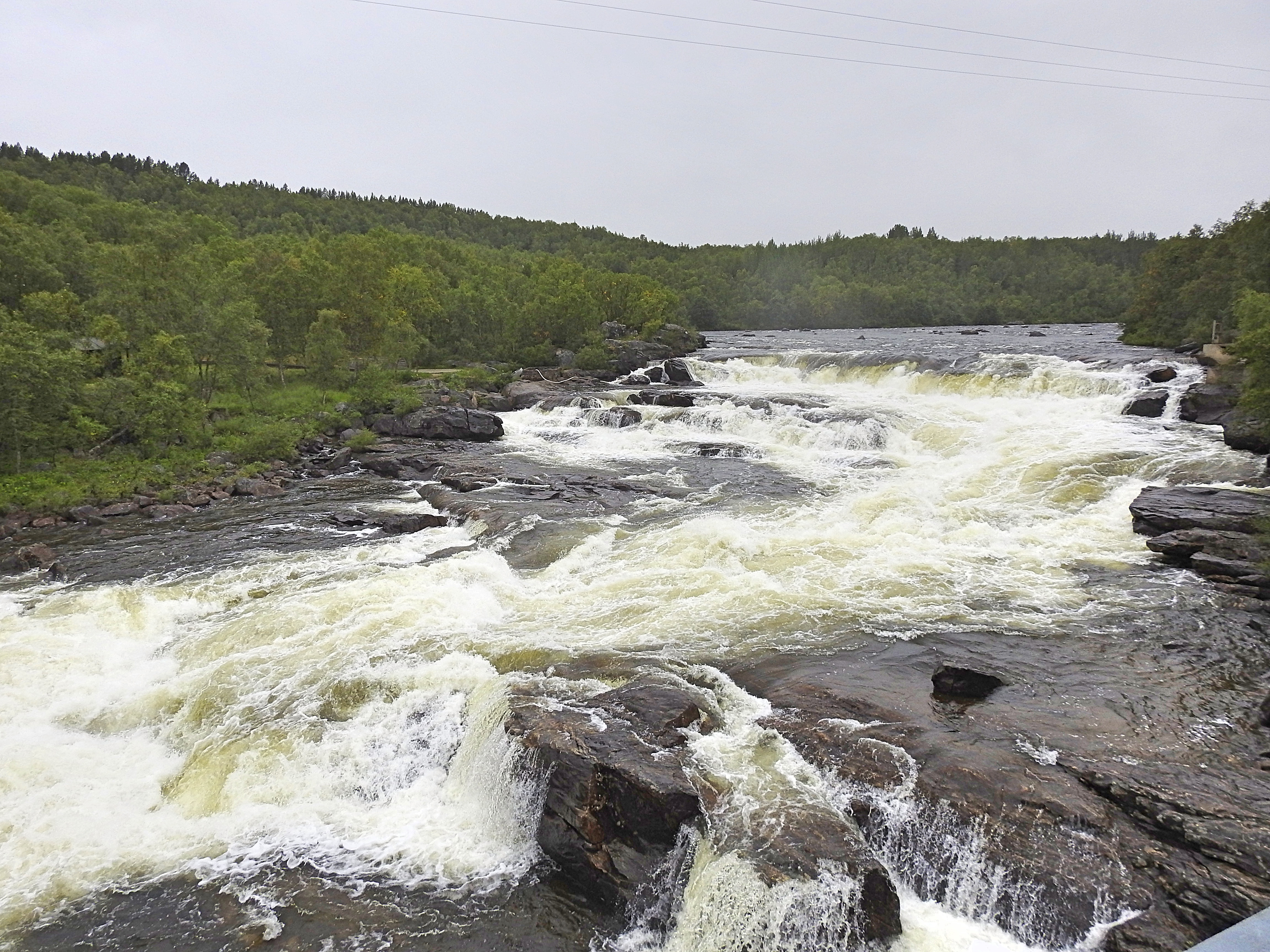 The Skoltefossen, a rapid of the river Neidenelv in Neiden (Municipality of Sør- Varanger/Finnmark/Norway)